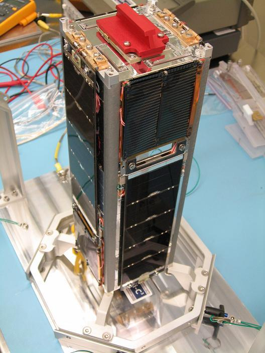 Delfi-C3 nanosatellite in stowed configuration.